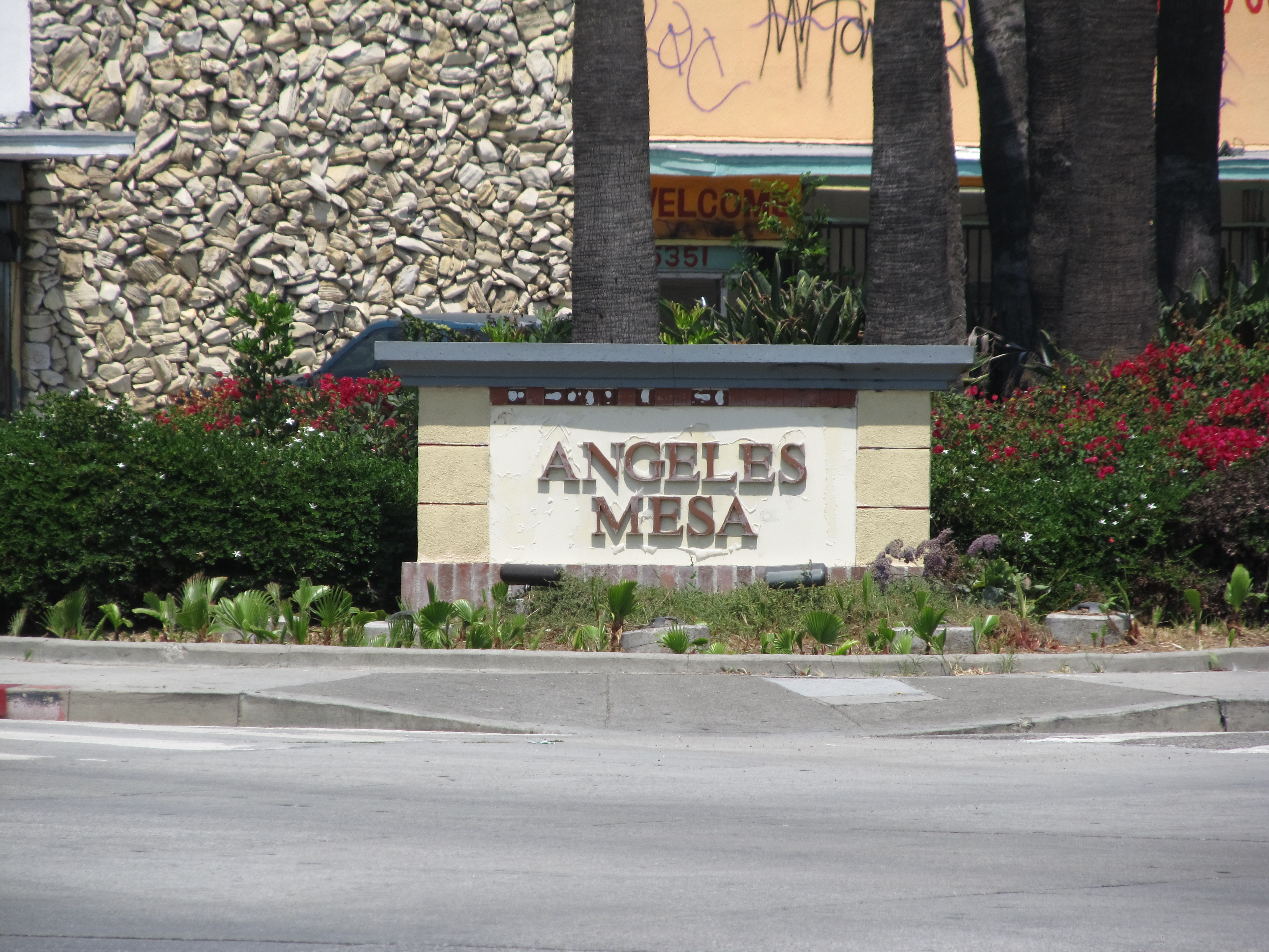 Neighborhood signage located on the north side of 54th Street at Arlington Avenue. A similar marker for Chesterfield Square is on the south side of 54th Street